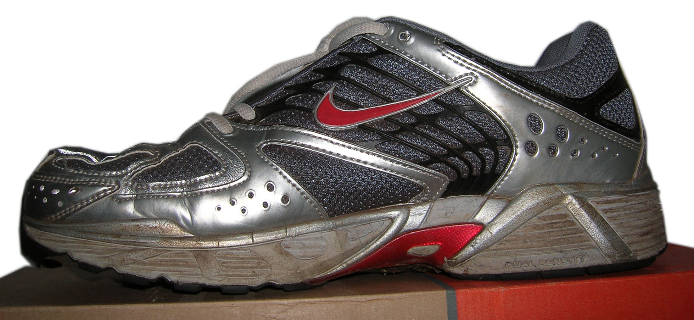 Nike Zoom Elite 2